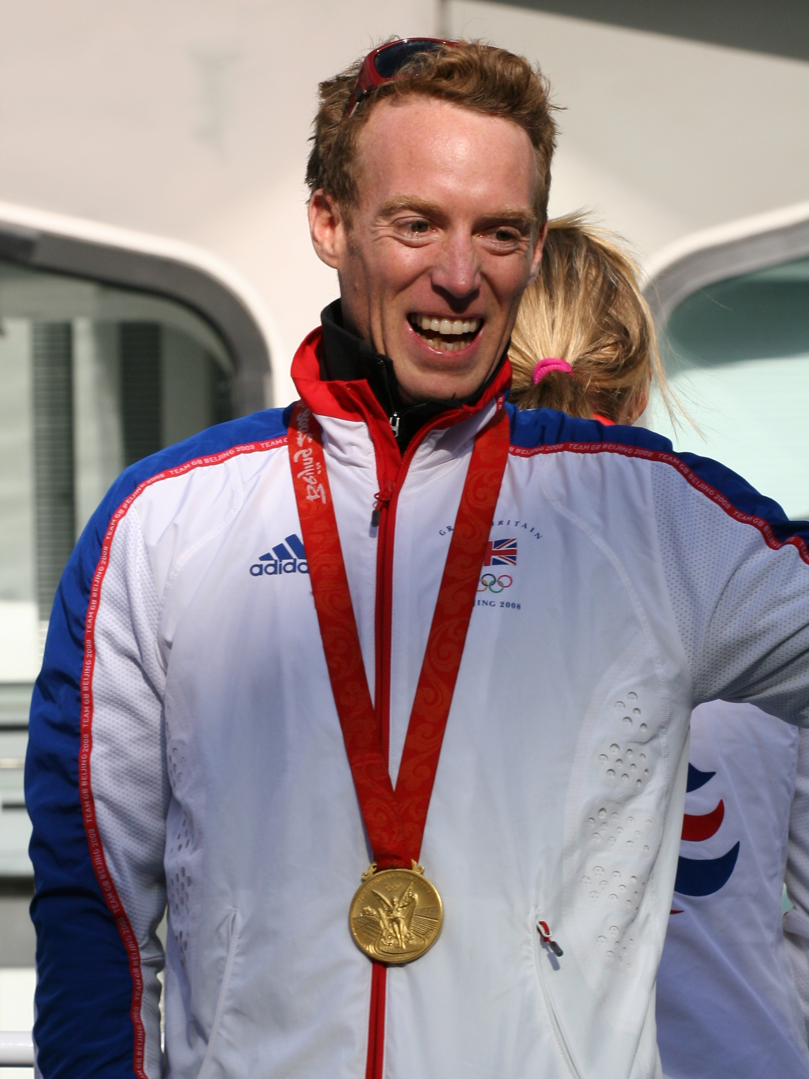 Paul Goodison, British sailor, at the parade in London to celebrate the achievements of British competitors at the 2008 Summer Olympic and Paralympic Games.